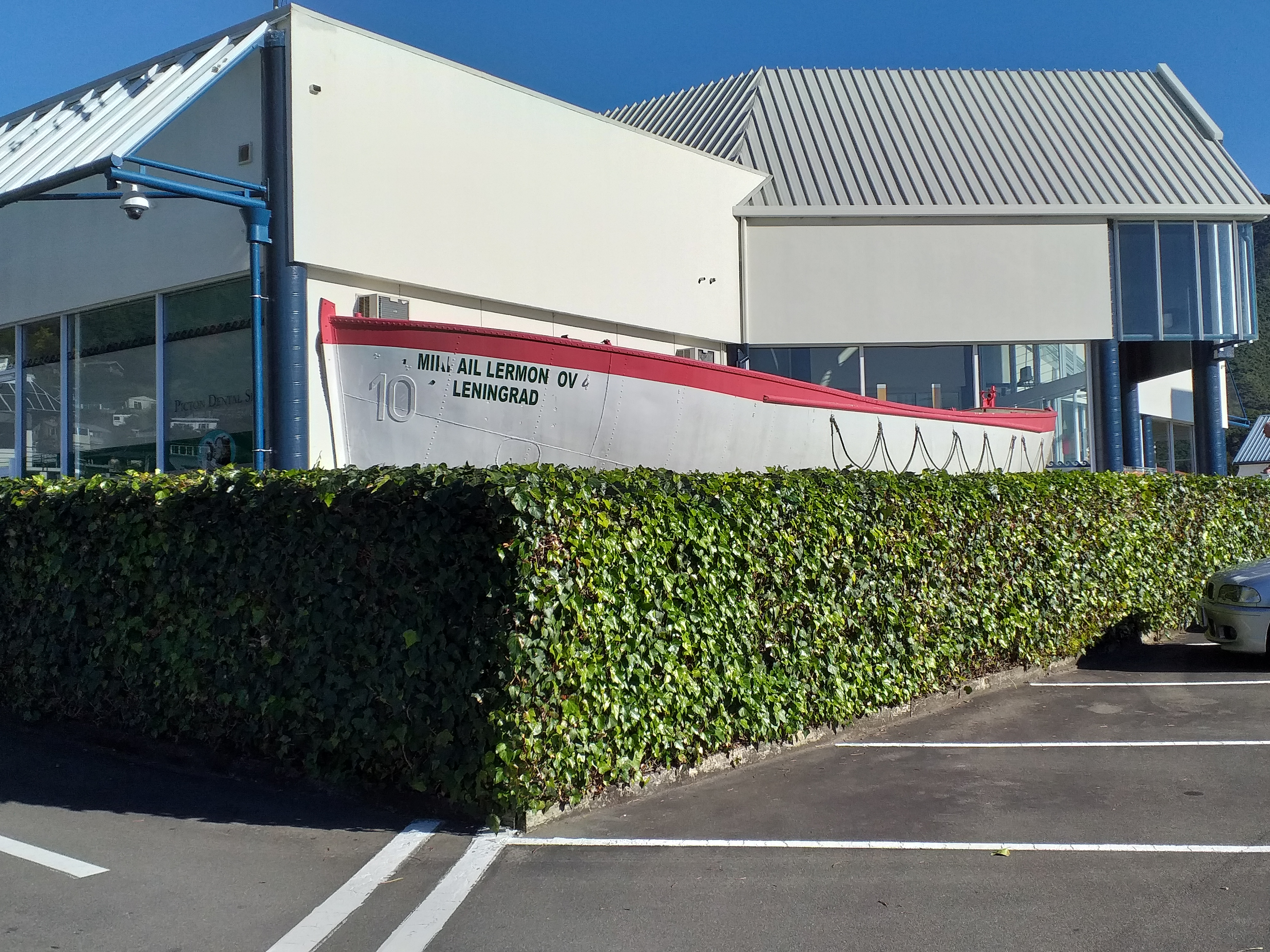 Lifeboat number 10 from the MS Mikhail Lermontov (1972), on display outside Mariners Mall in Picton, New Zealand.